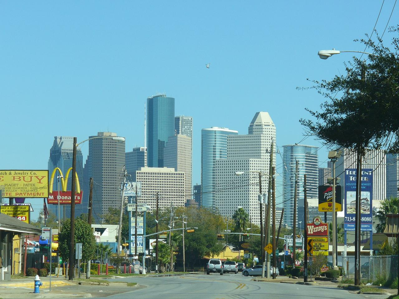 Downtown Houston as seen from Westheimer Road in Neartown